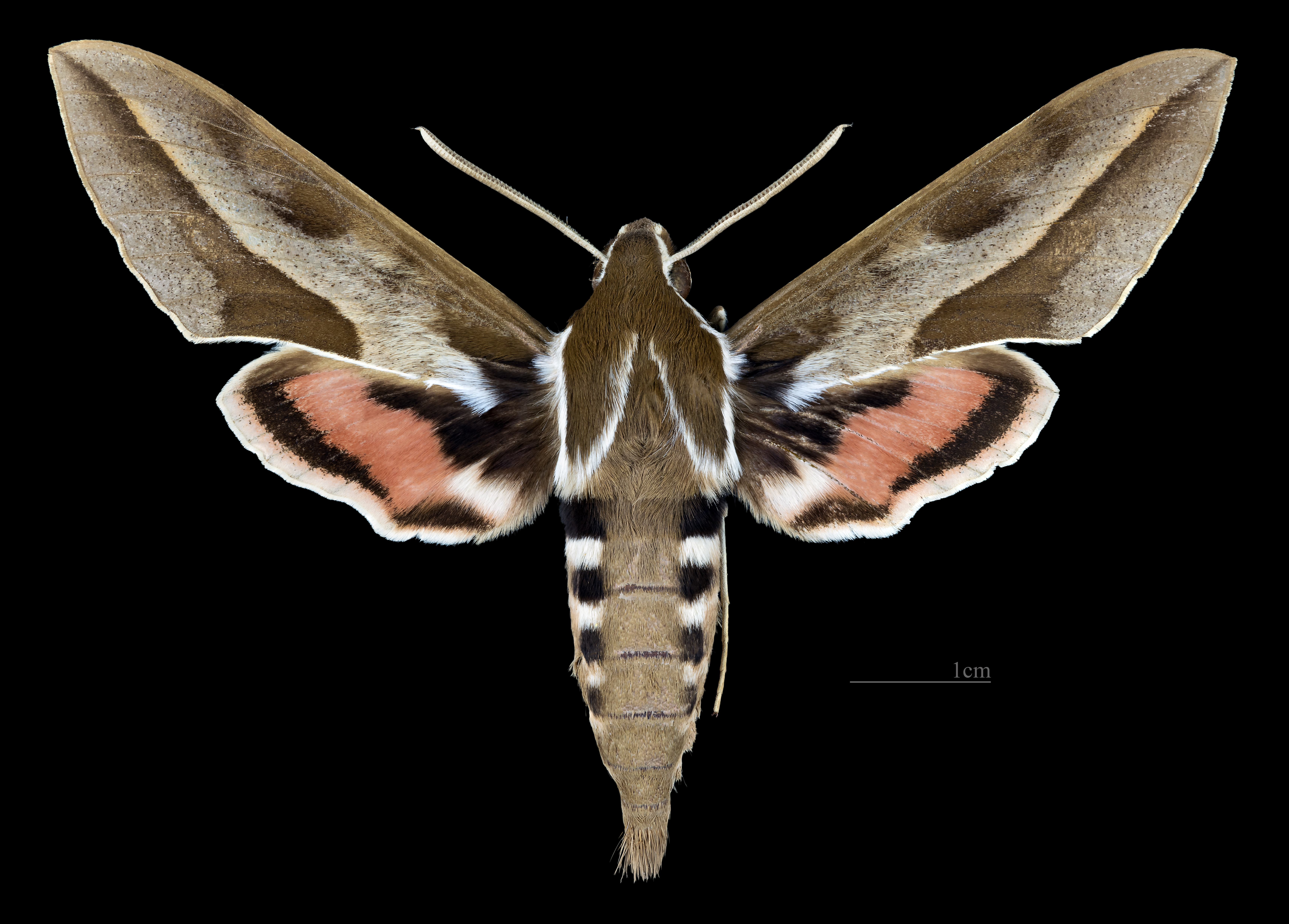 Hyles annei - Dorsal side Collection of the Mathematician Laurent Schwartz